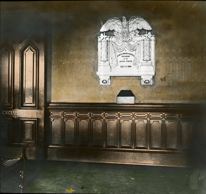 Marker on the wall inside Baltimore & Potomac Railroad Station honoring President James Garfield. The star on the floor marks the spot where he was assassinated by Charles Guiteau.